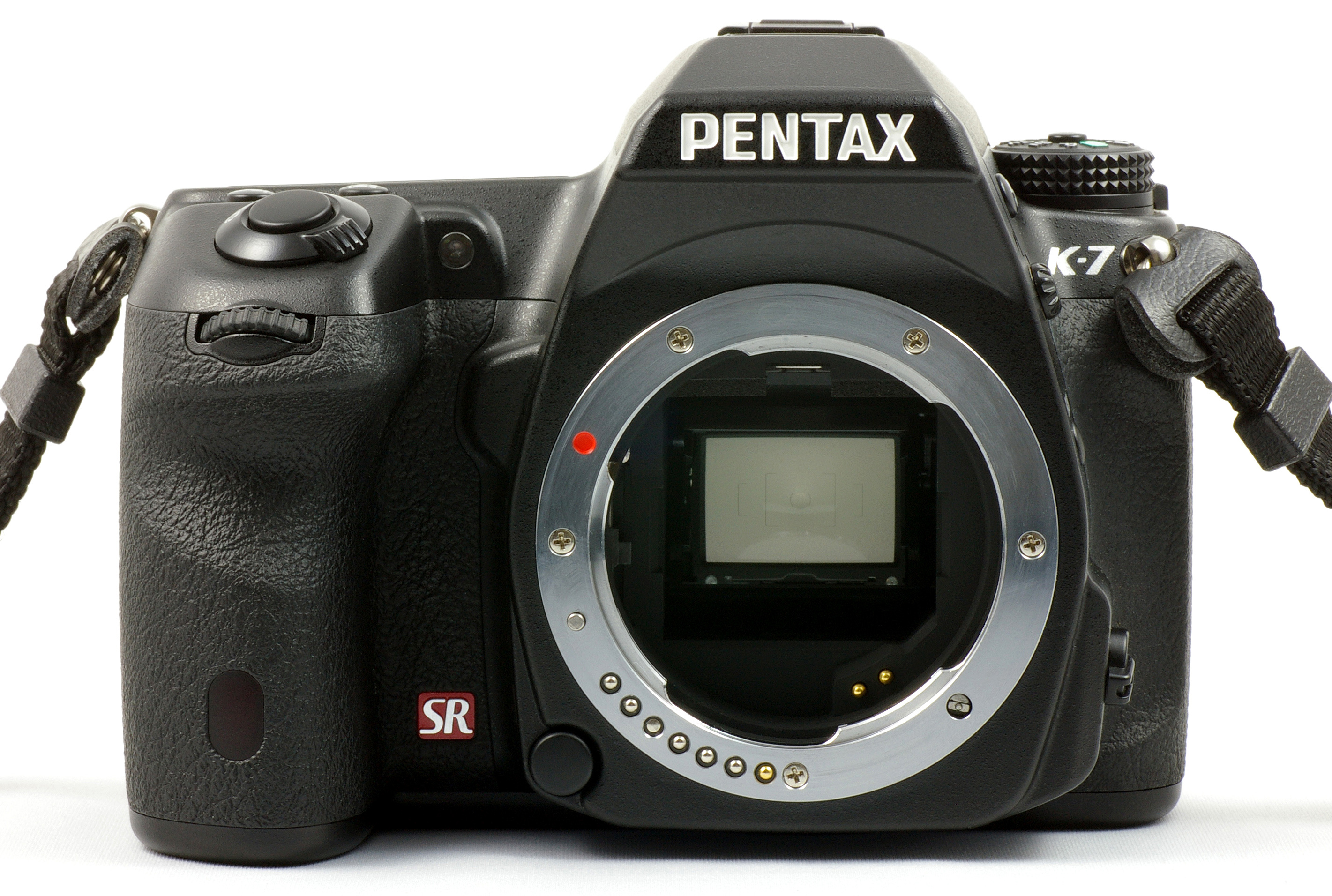 The digital SLR camera Pentax K-7, body without lens.